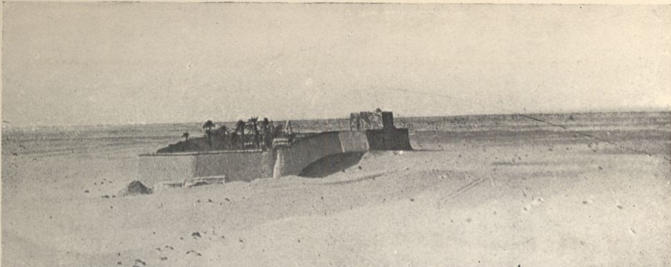 “A MONASTERY IN THE REMOTE DESERT.‘Deir Siriam’ or the Syrian Monastery.”A monastery completely surrounded by the desert. Black-and-white photograph.